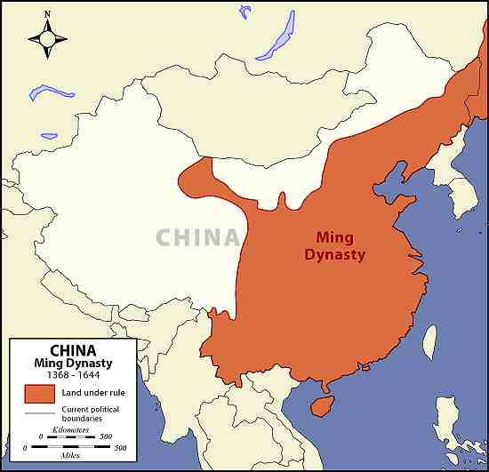 Ban do lanh tho nha Minh